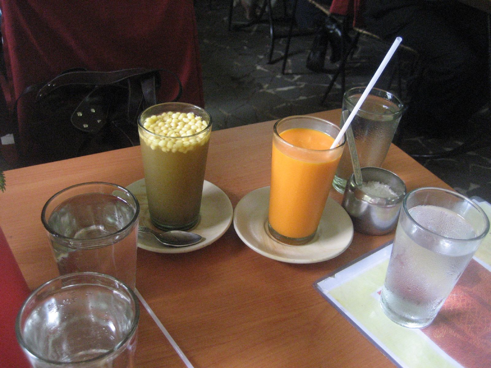 Julhjeerah (left) and Mango Lassi (right) at Cafe Samovar.